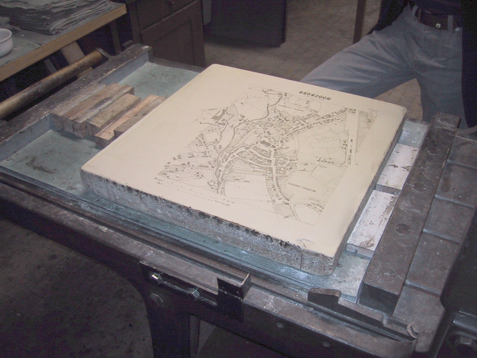 Litography printing press Steinhandhebelpresse Krause 1934 in the Landesamt für Vermessung und Geoinformation, a map of Moosburg is in place and prepared for printing. Picture taken as part of the Lange Nacht der Museen in Munich.